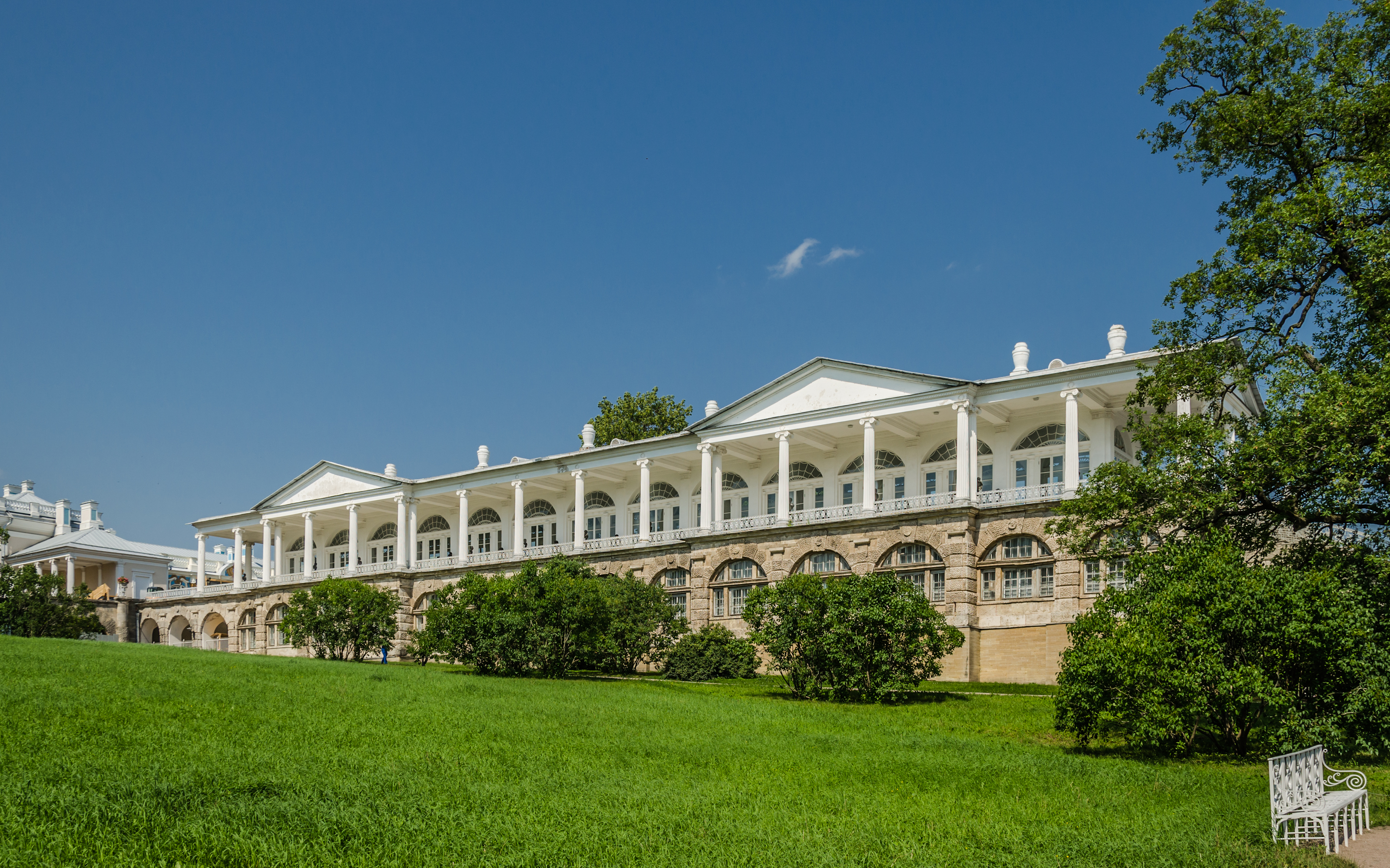 Cameron gallery in Catherine park of Tsarskoe Selo, Saint Petersburg